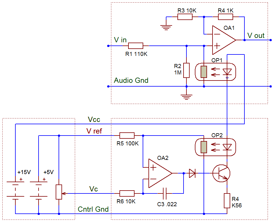 Linear control law VCA with vactrols as remote-control pots. Based on schematic in Audio level control with resistive optocouplers. (PDF version). Retrieved November 2, 2010. p.6. Drawn in Proteus v.4. Circuit modified to show explicitly different audio and control grounds and compartmentalized into audio, control and remote control blocks. Underlying schematic PD (1970s art, if ever patented). Note that if the inputs of OA2 allow rail-to-rail operation, the control circuit can be easily adjusted to run off a single power supply, which could be as low as +5V (all it needs is to drive a LED). The same PS rail can act as Vref, setting the scale for Vc control voltage. Vref does not even need to be regulated, as only Vc/Vref ratio is important.